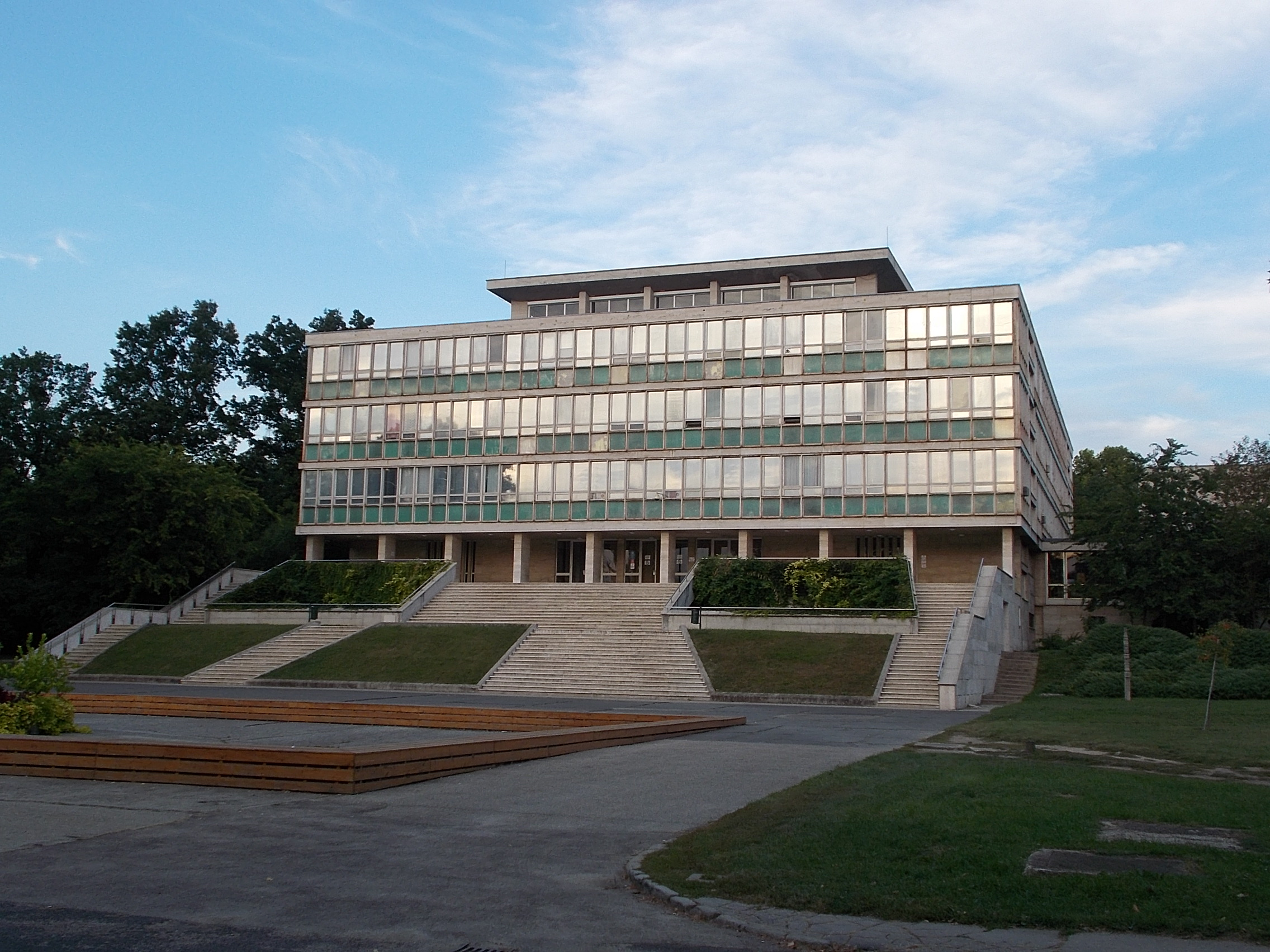 Faculty of Mechanical Engineering, University of Gödöllő. - Páter Károly Street, Gödöllő, Pest County, Hungary.